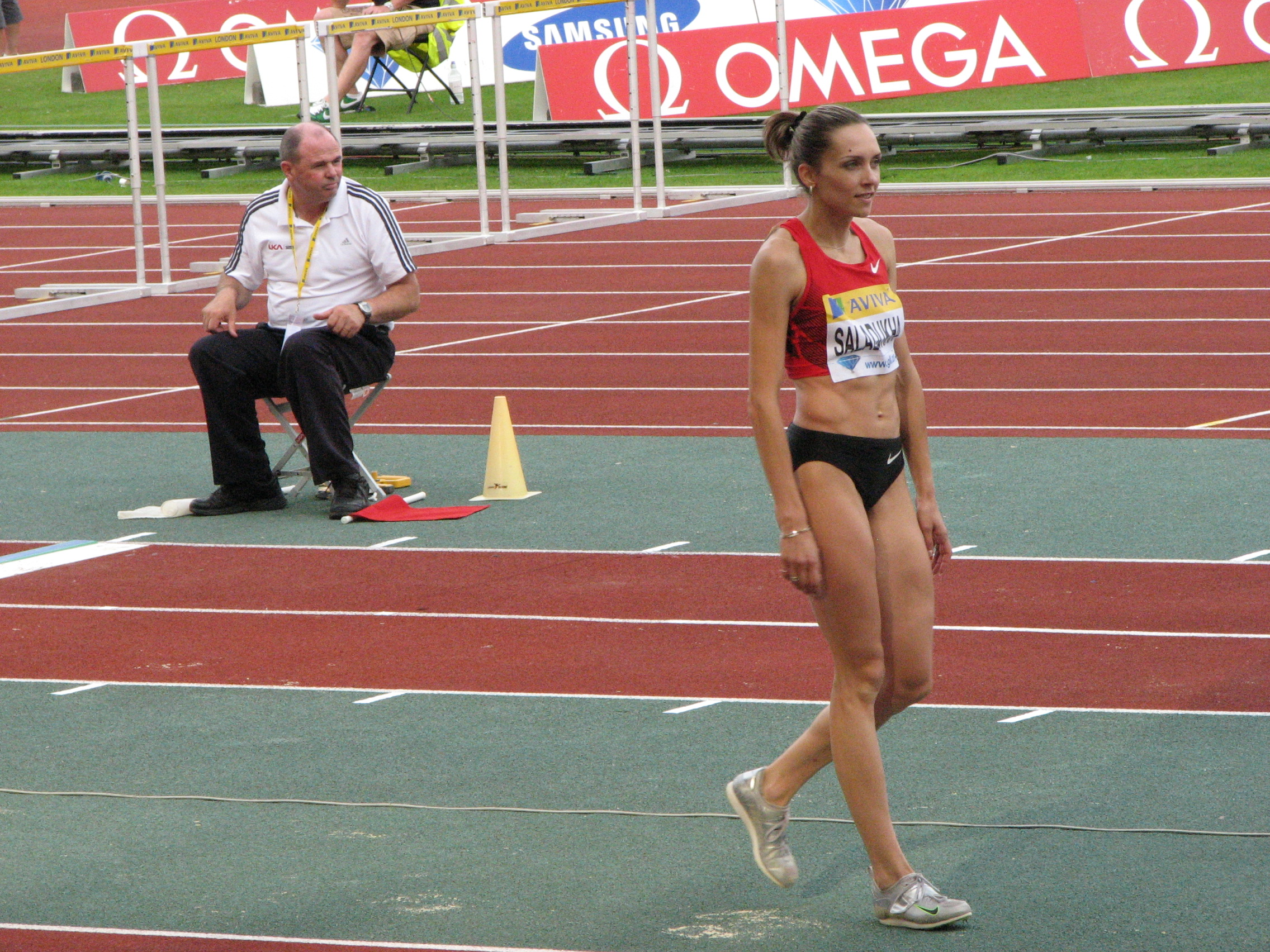 Olha Saldukha, winner of the triple jump with 14.80m. Aviva London Grand Prix, hosting the Diamond League, Crystal Palace, Friday 5 August 2011.